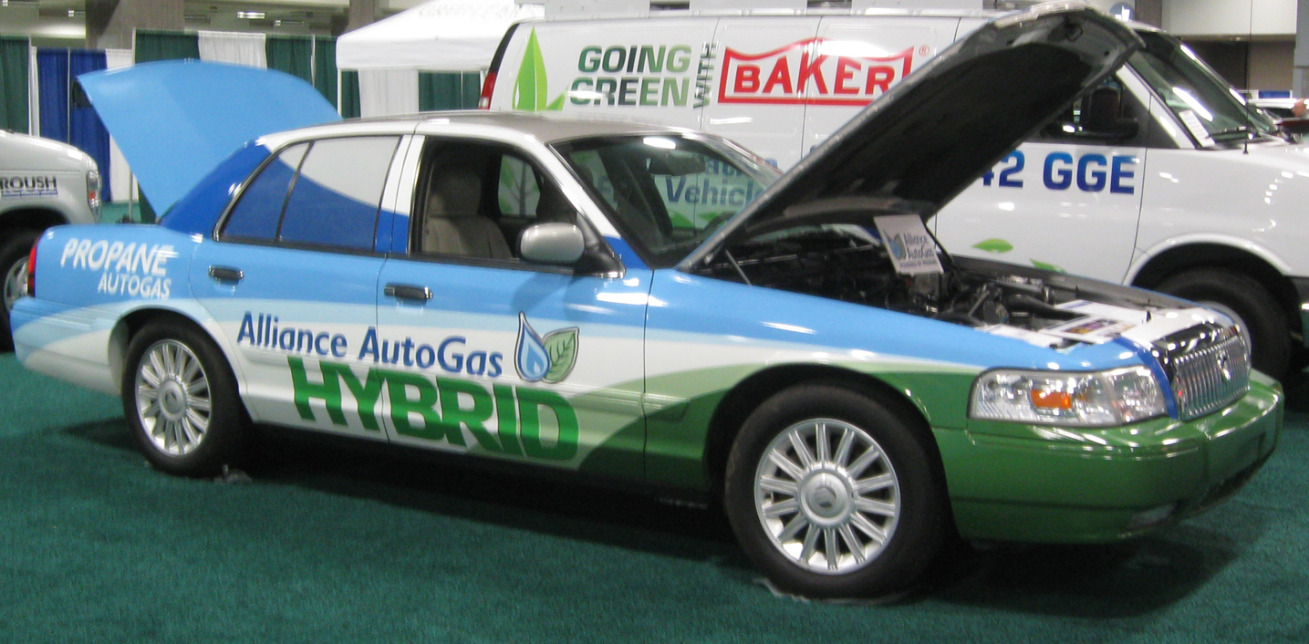 Propane-powered Mercury Grand Marquis photographed at the 2011 Washington (D.C.) Auto Show.